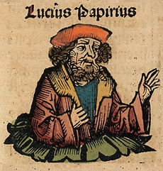 This is a part of a scan of an historical document: Title: Schedelsche Weltchronik or Nuremberg Chronicle